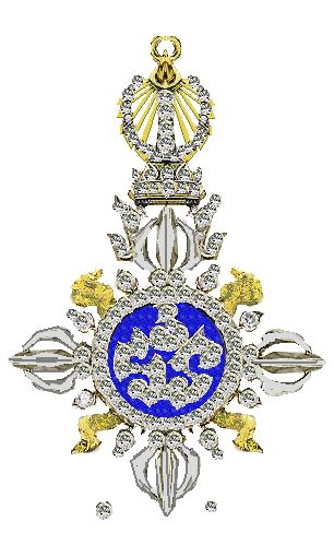 "Ratana Varabhorn Order of Merit"